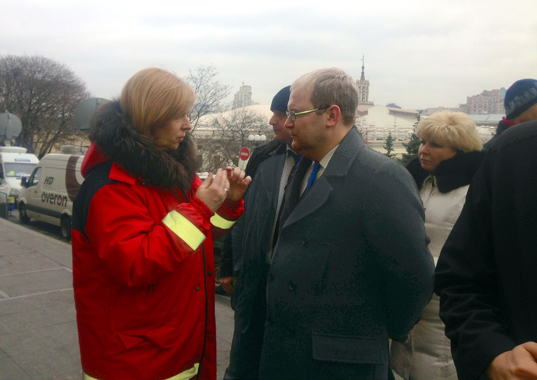 FM Urmas Paet spoke with Chief physician Olga Bogomolets on Maidan Square